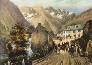 L'hotel des Voyageurs, Gavarnie